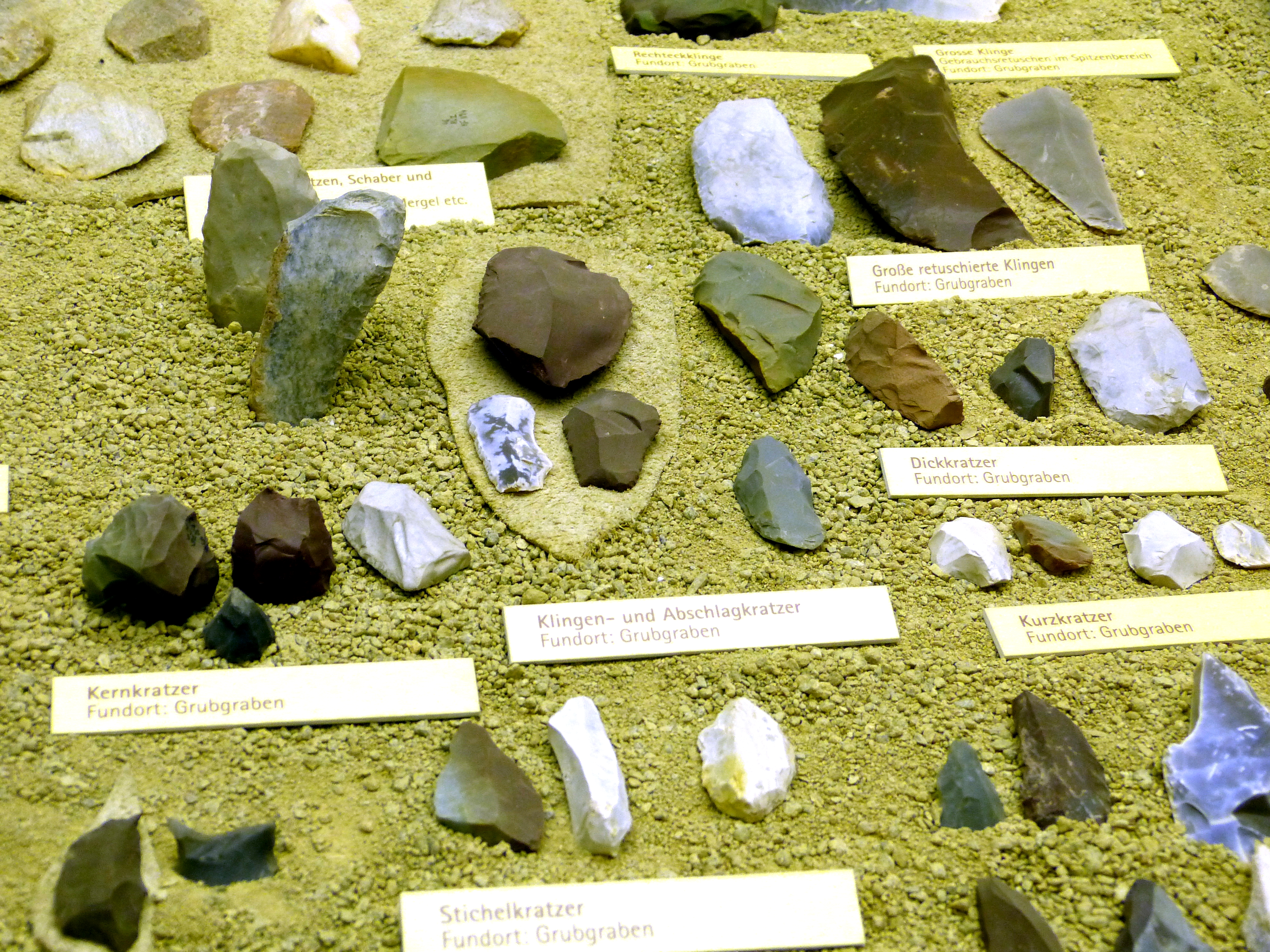 Eggenburg ( Lower Austria ). Krahuletz-Museum: Paleolithic scrapers, from Grubgraben.